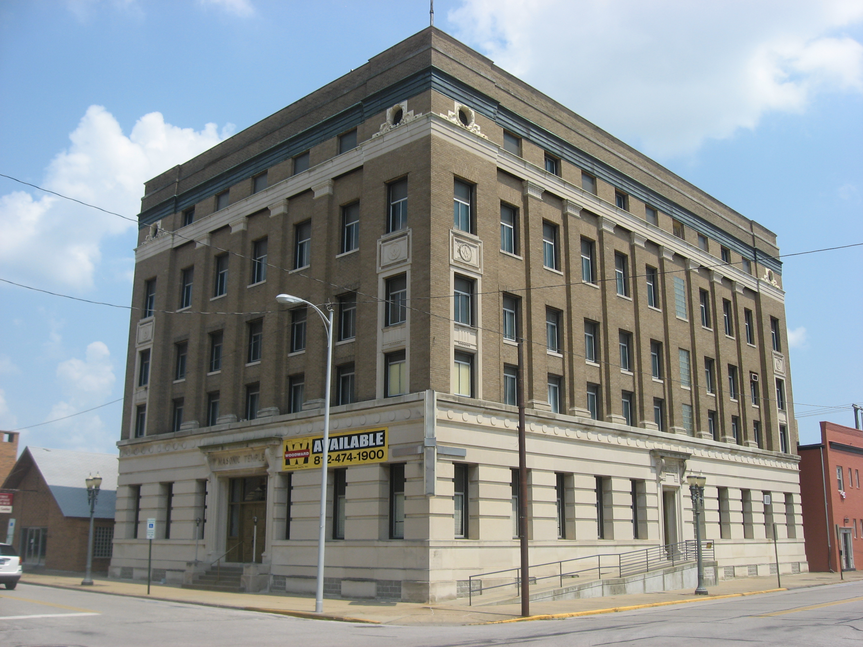 Front and southwestern side of the Evansville Masonic Temple, located at 301 Chestnut Street in Evansville, Indiana, United States. Built in 1913, it is listed on the National Register of Historic Places.